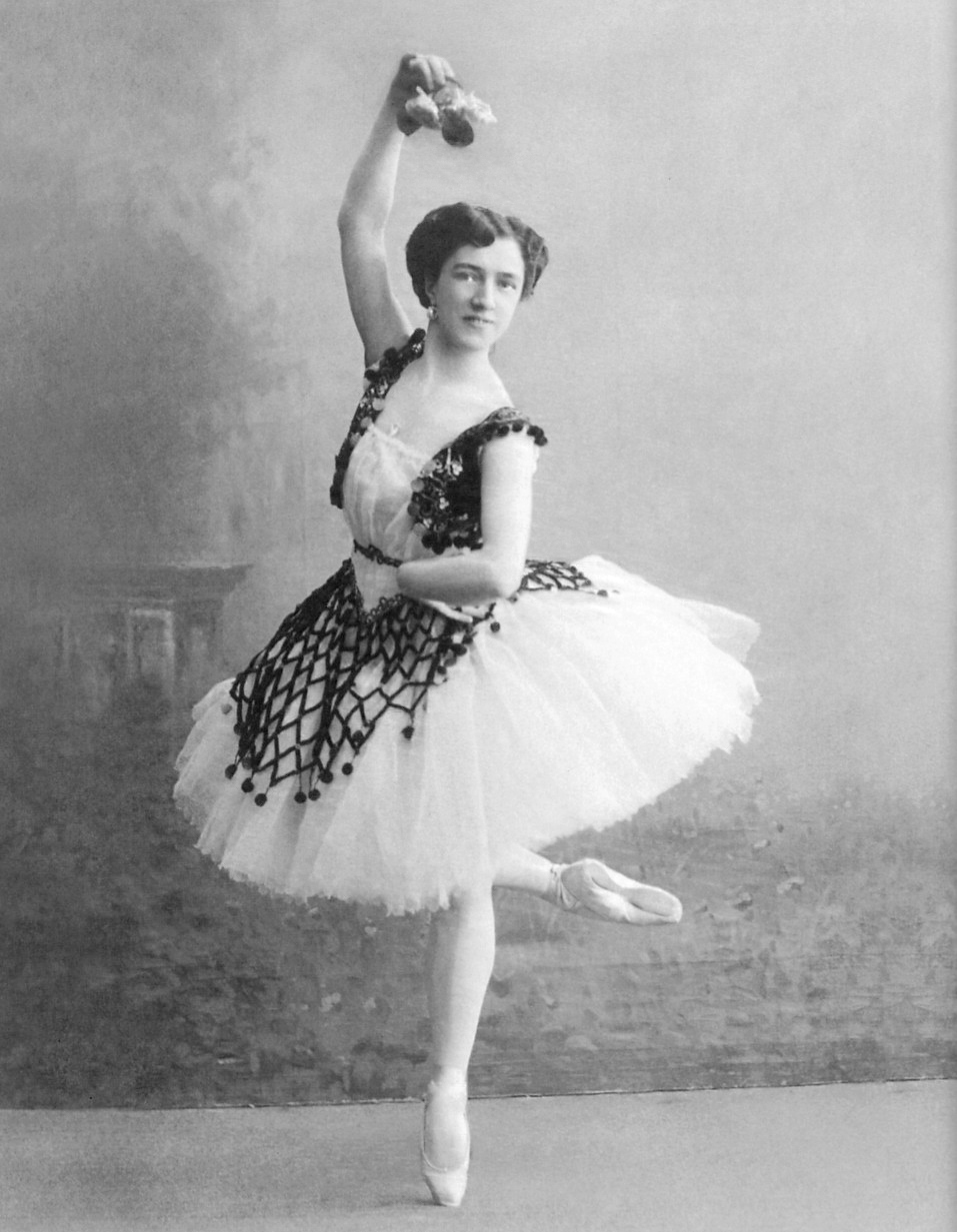 Photo taken by an unknown photographer of Agrippina Vaganova in "La Esmeralda". St. Petersburg, circa 1910. Photo comes from Mrlopez2681's own collection and was scanned by Mrlopez2681. 05:40, 9 September 2006 (UTC)